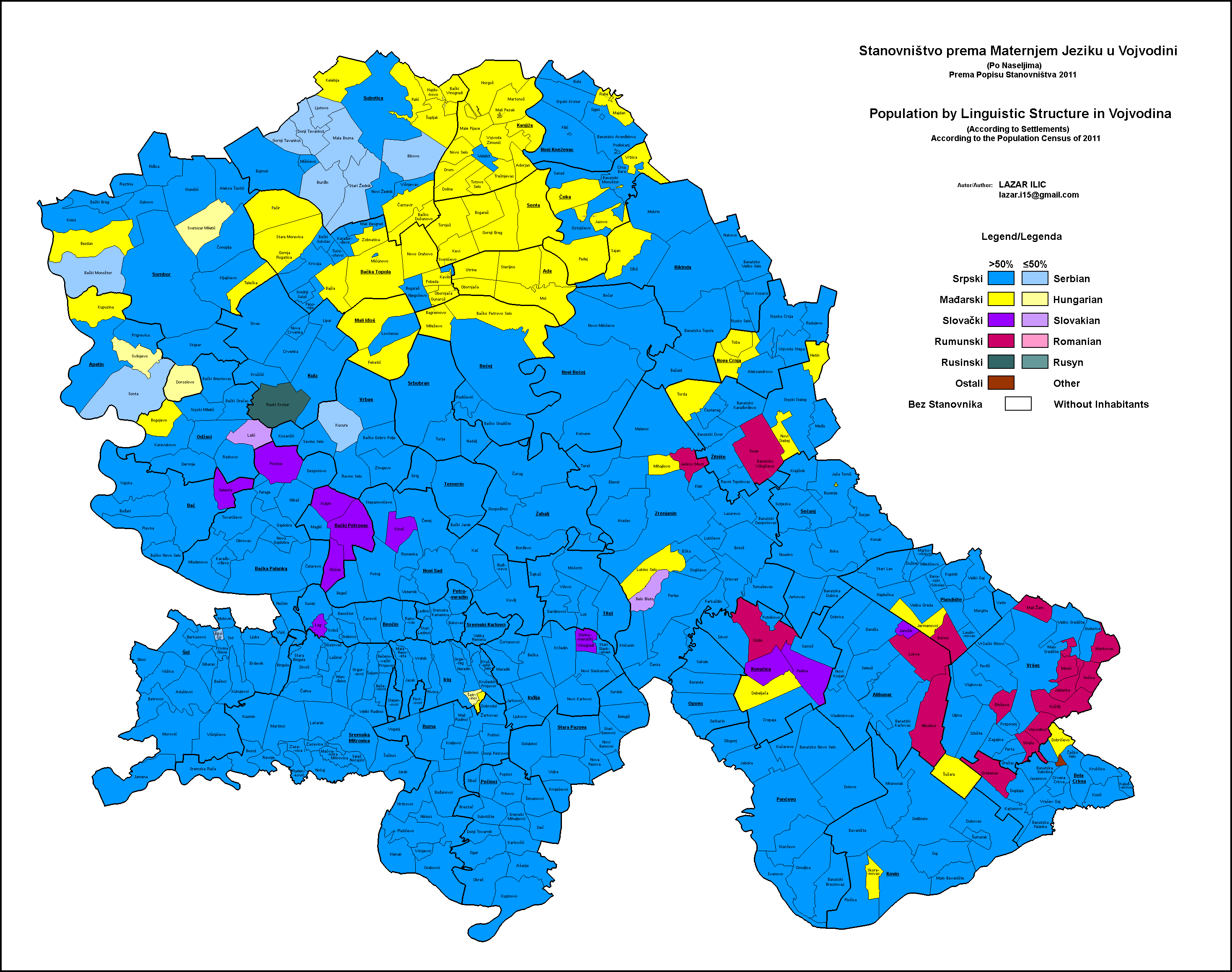 This is a linguistic map of Vojvodina / Northern Serbia. It shows the linguistic structure according to the 2011 census, according to settlements. Српски (ћирилица): Ovo je karta Vojvodine, prema popisu stanovnistva 2011ve godine.